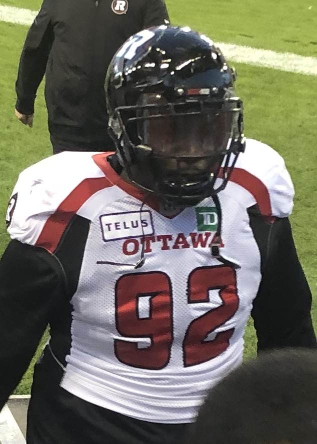 George Uko, defensive lineman for the Ottawa Redblacks.